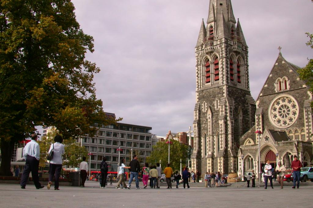 Cathedral Square in Christchurch, New Zealand.